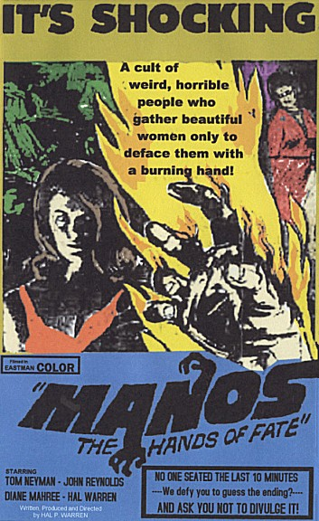 Film poster for "Manos" The Hands of Fate - Copyright 1966, Emerson Film Enterprises